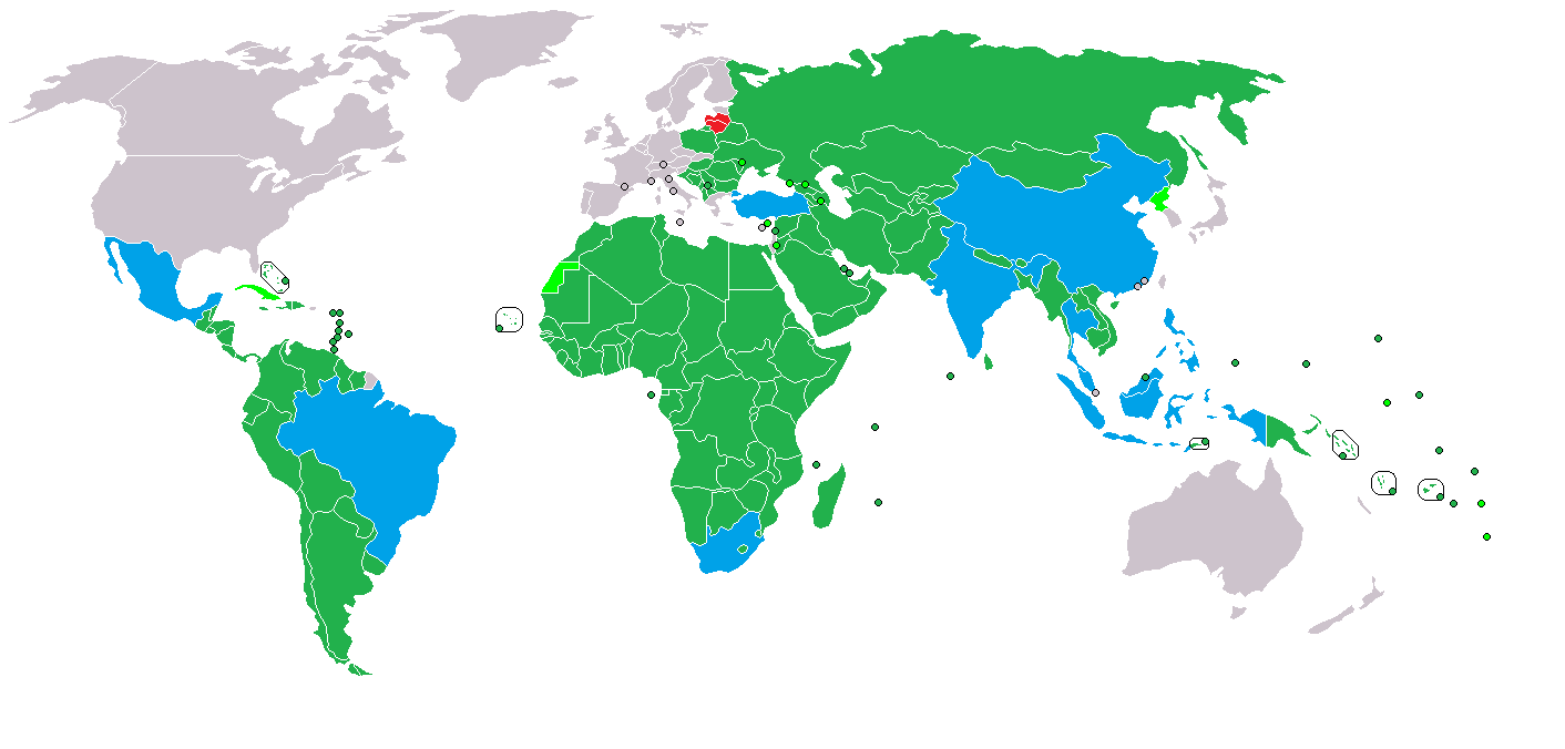 Map of developing countries according to the IMF as of 2014Dark Green - developing according to the IMFLight Green - developing out of the scope of the IMFred - graduated to developedBlue - Newly industrialised countries